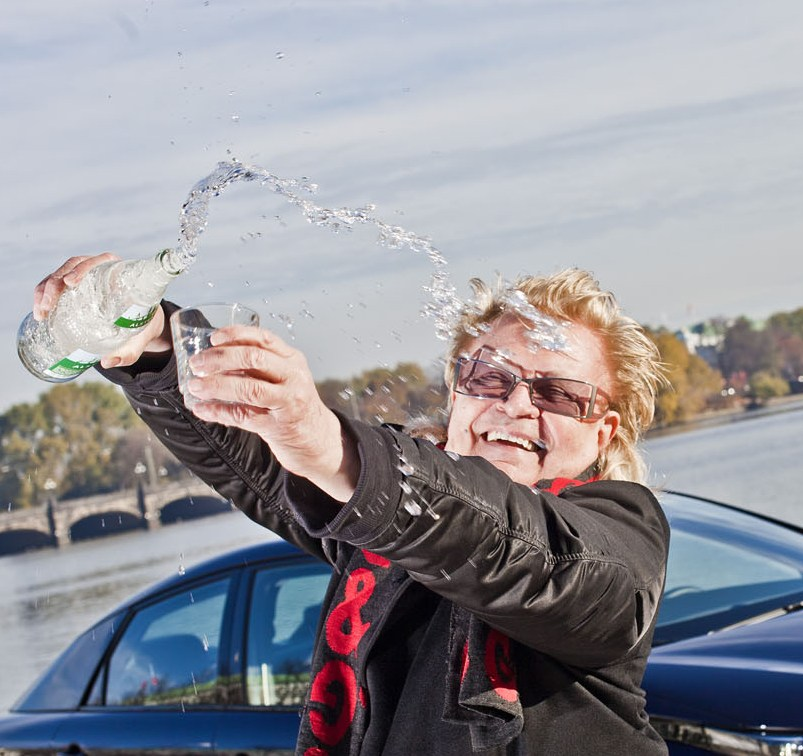 HA Schult